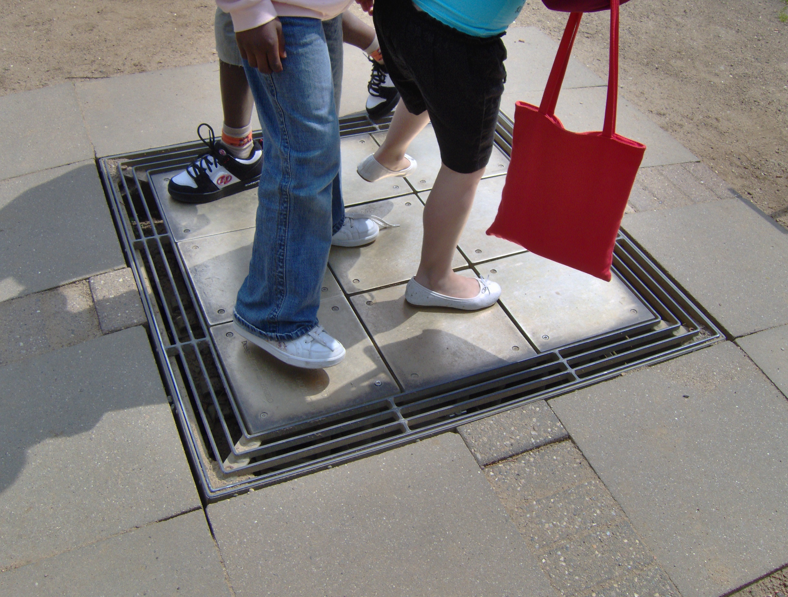 Dance Chime at Botanical Garden Hamburg / Germany - each of the nine bronze squares is a different chime that sounds when stepped on